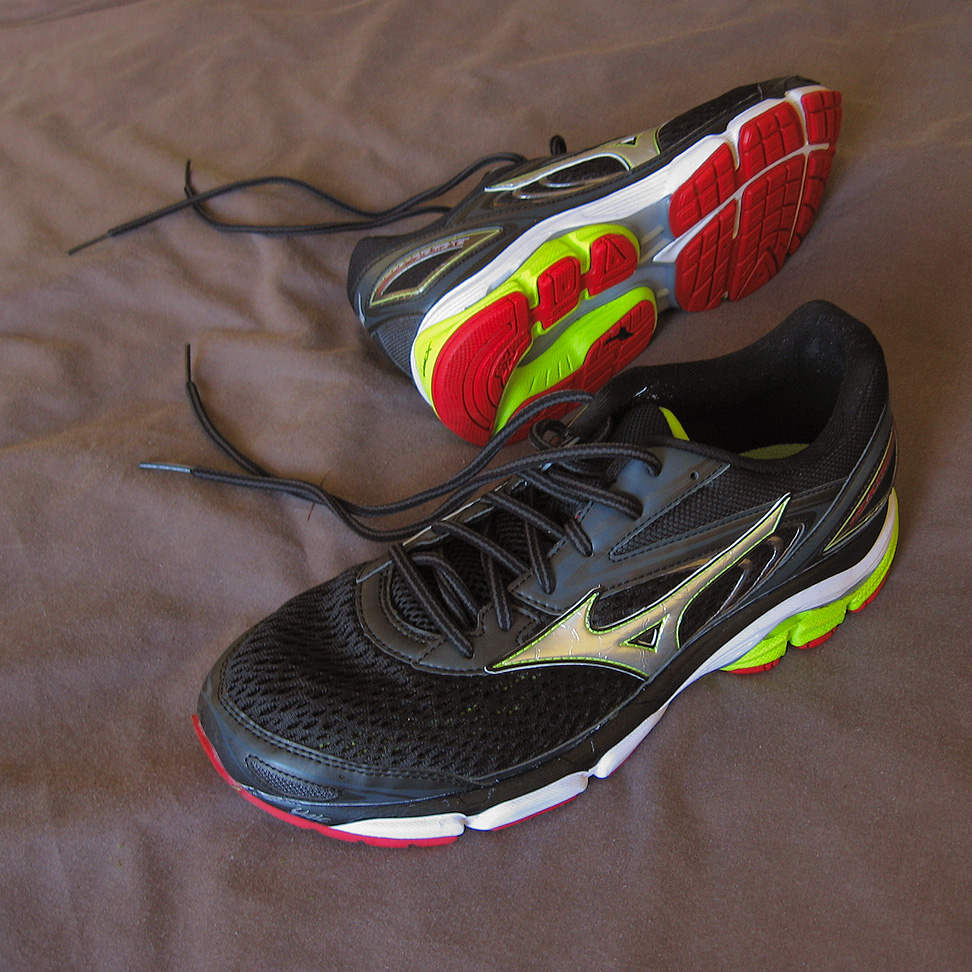 Snapshot of Mizuno "Wave Inspire 13" running shoes. Type: J1GC174404 / FLV0517 Size: UK 10.5 / US 11.5 / EUR 45 / BRA 43.5 / JPN 29.5 Shot under daylight, which shows up fluorescent trim.